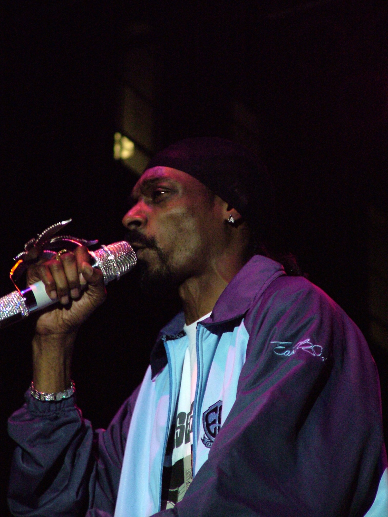 Snoop Dogg performing at the City Stages festival in 2006.